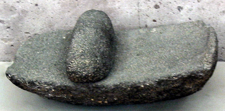 Urartian grain bruiser